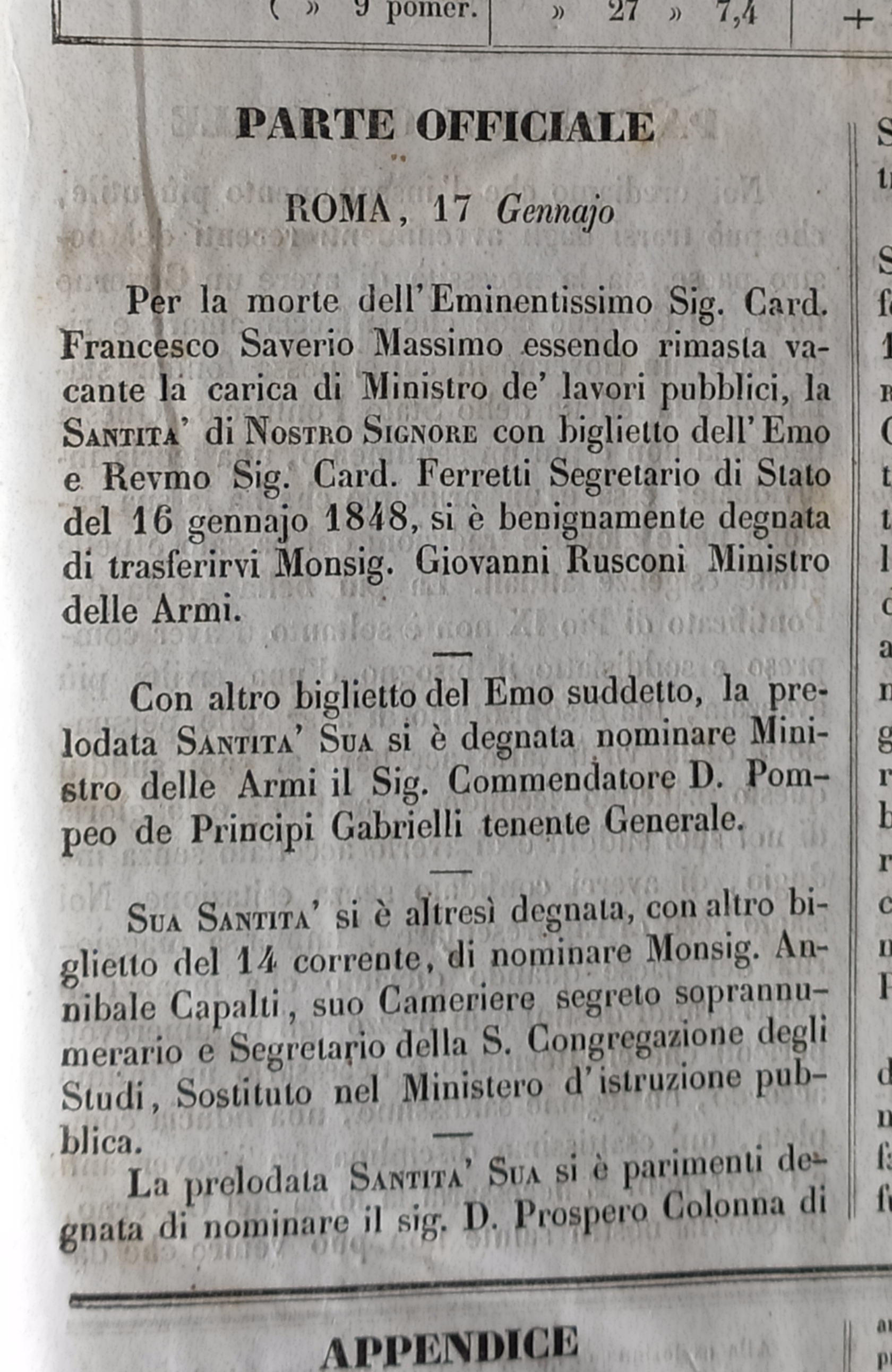 From "Gazzetta di Roma", the official newspaper of the Papal States, published January 17th 1848. There are the changes in composition of the Papal Government, w. the indication of the first layman to be appointed Minister in a Papal States cabinet, Pompeo Gabrielli..